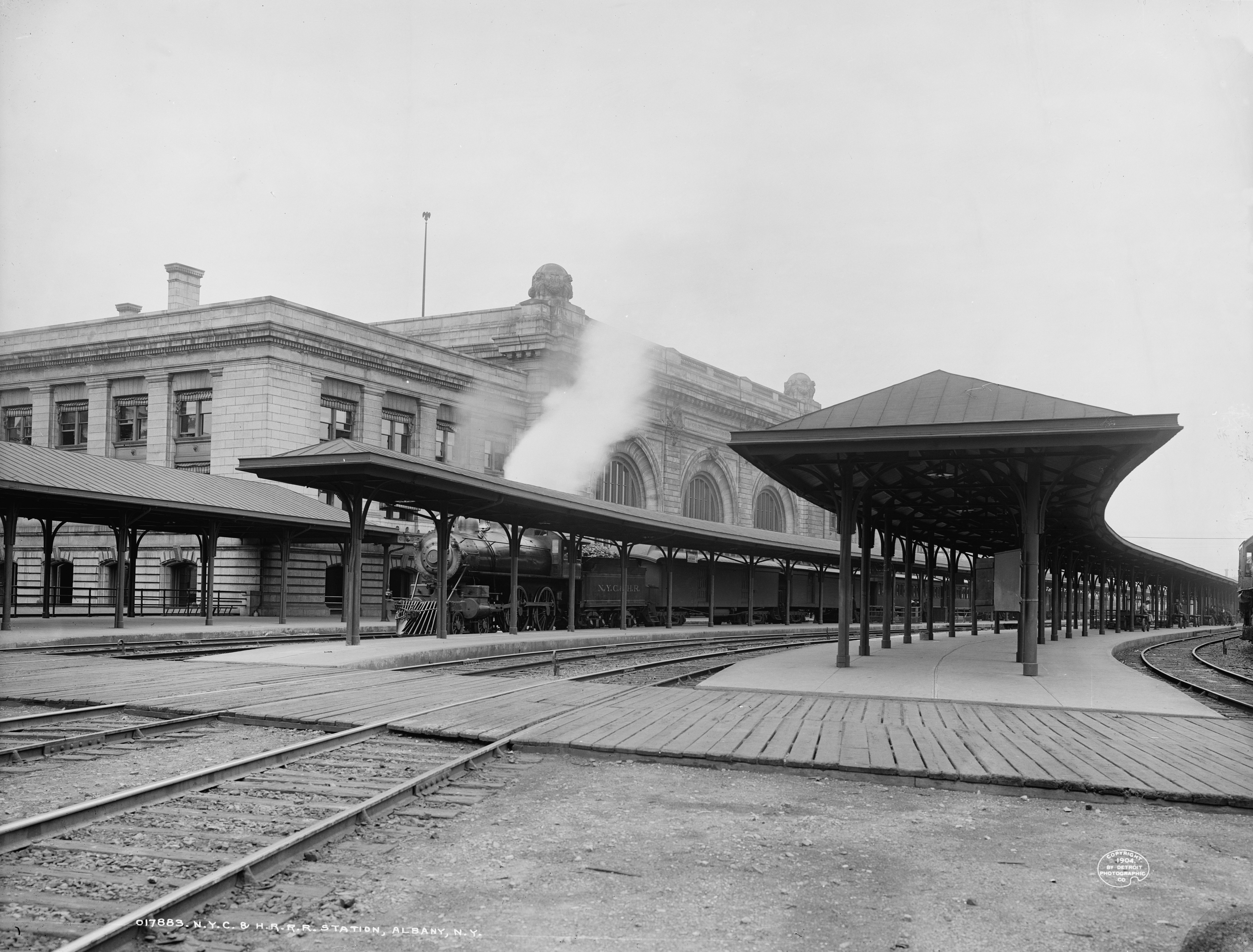 A view of Union Station in Albany, New York from the track side.